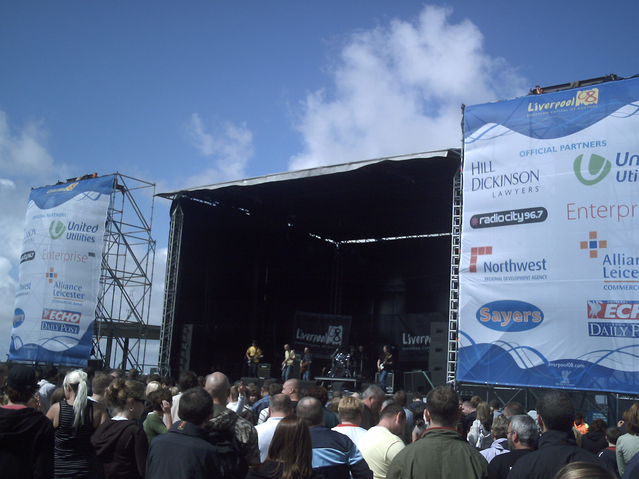 "Fake Plastic Radiohead", a Radiohead tribute band, performing at the Matthew Street Festival in 2006.